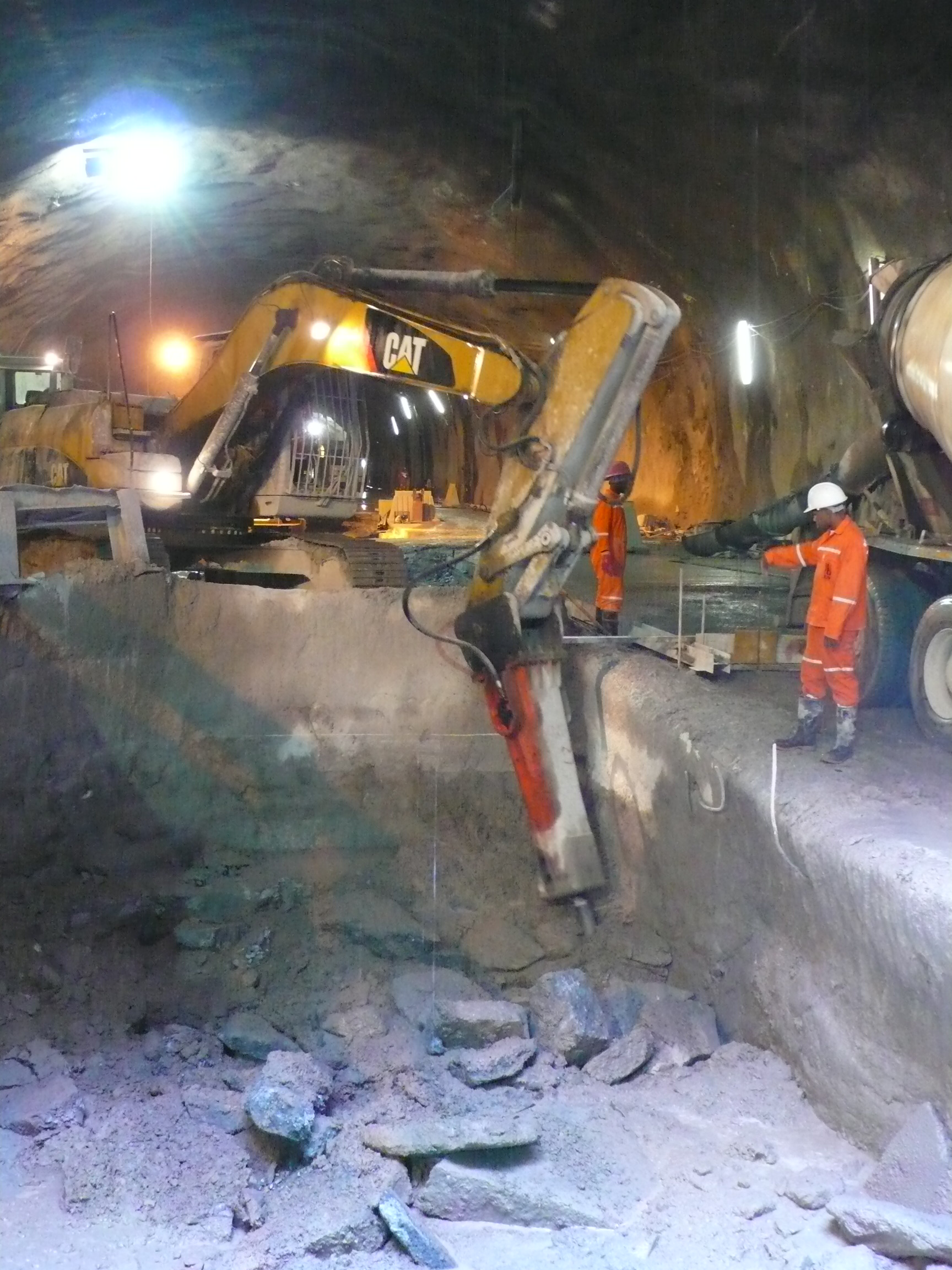 Tunnel construction for Gautrain, from "Mushroom Farm" shaft to Sandton ; excavation with hydraulic breaker.